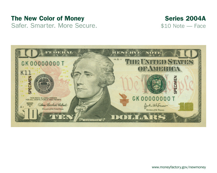 Face of new 2004 version of the $10 United States dollar banknote, with revised image of Alexander Hamilton.